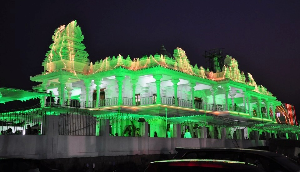 Sri Shiridi Sai Divya damam in Nagari